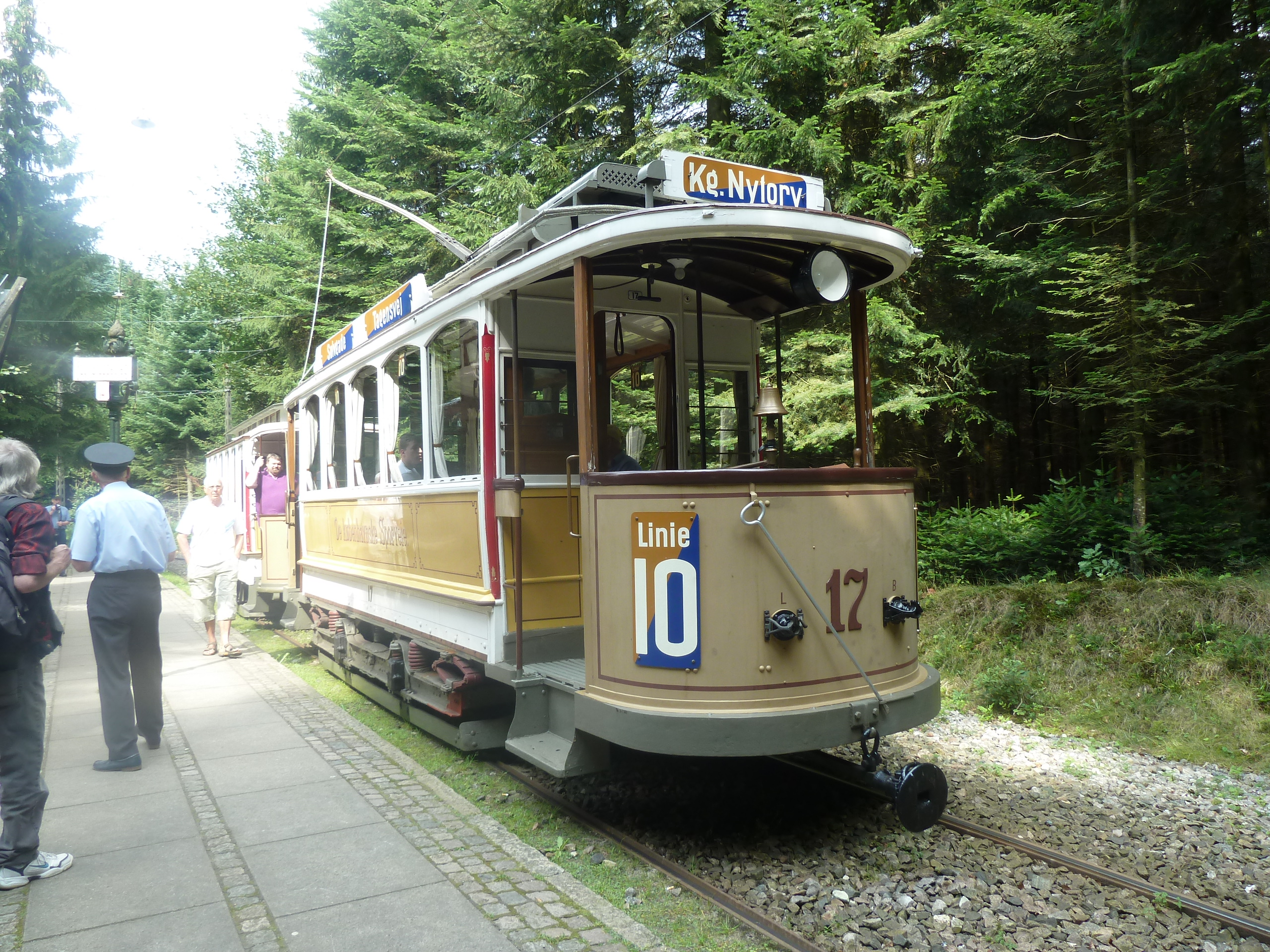 Old trams from Copenhagen DKS 17+283 at Ejlers Eg at Sporvejsmuseet Skjoldenæsholm in Denmark.